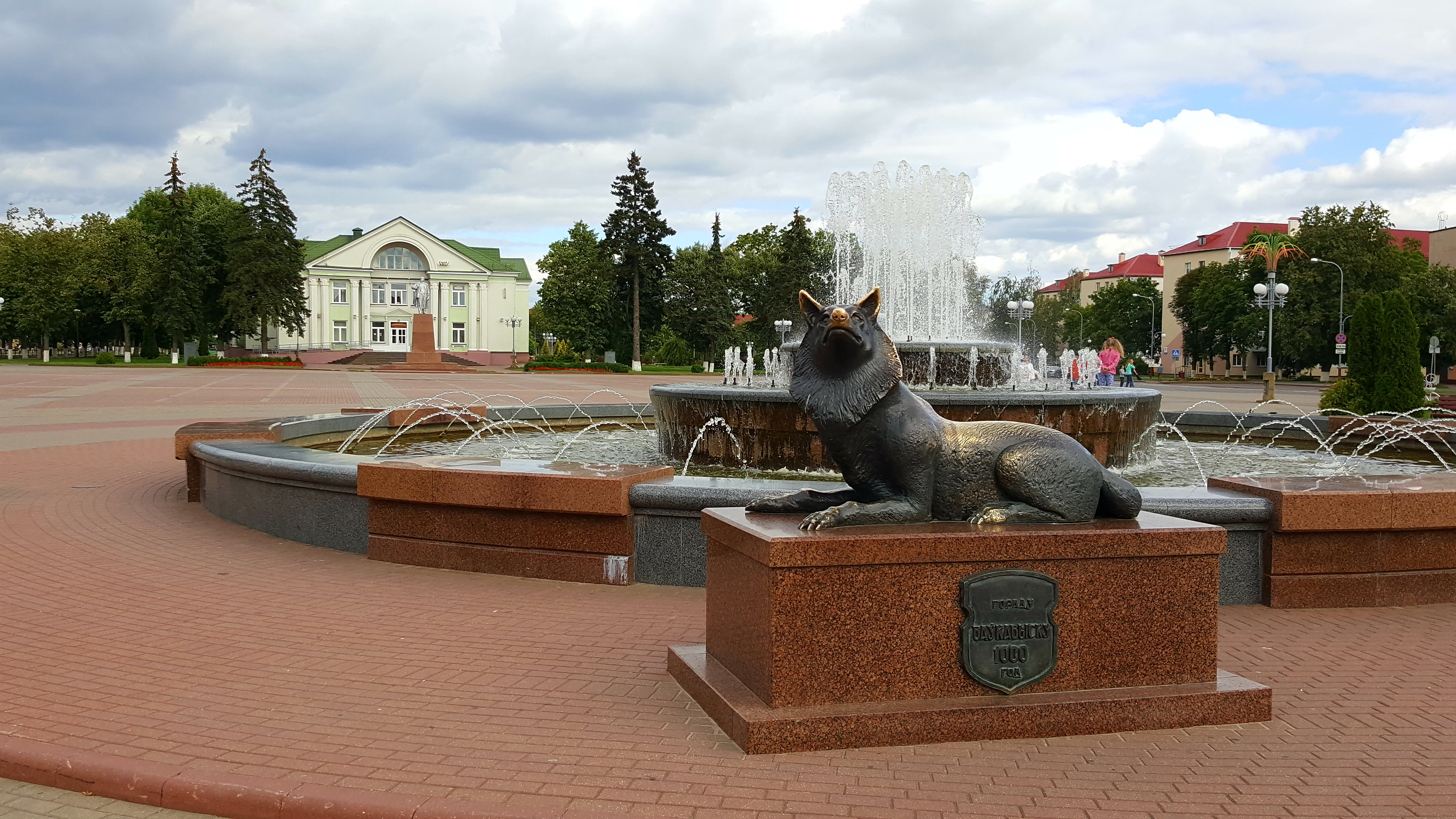 Central square of Vawkavysk, Belarus